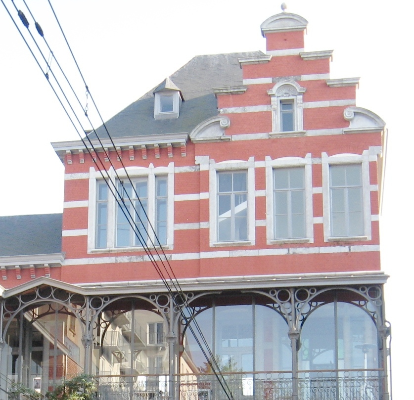 Back side with gangway and stairs of the former train station Leuvensesteenweg in Sint-Joost-ten-Node, Brussels Region, Belgium